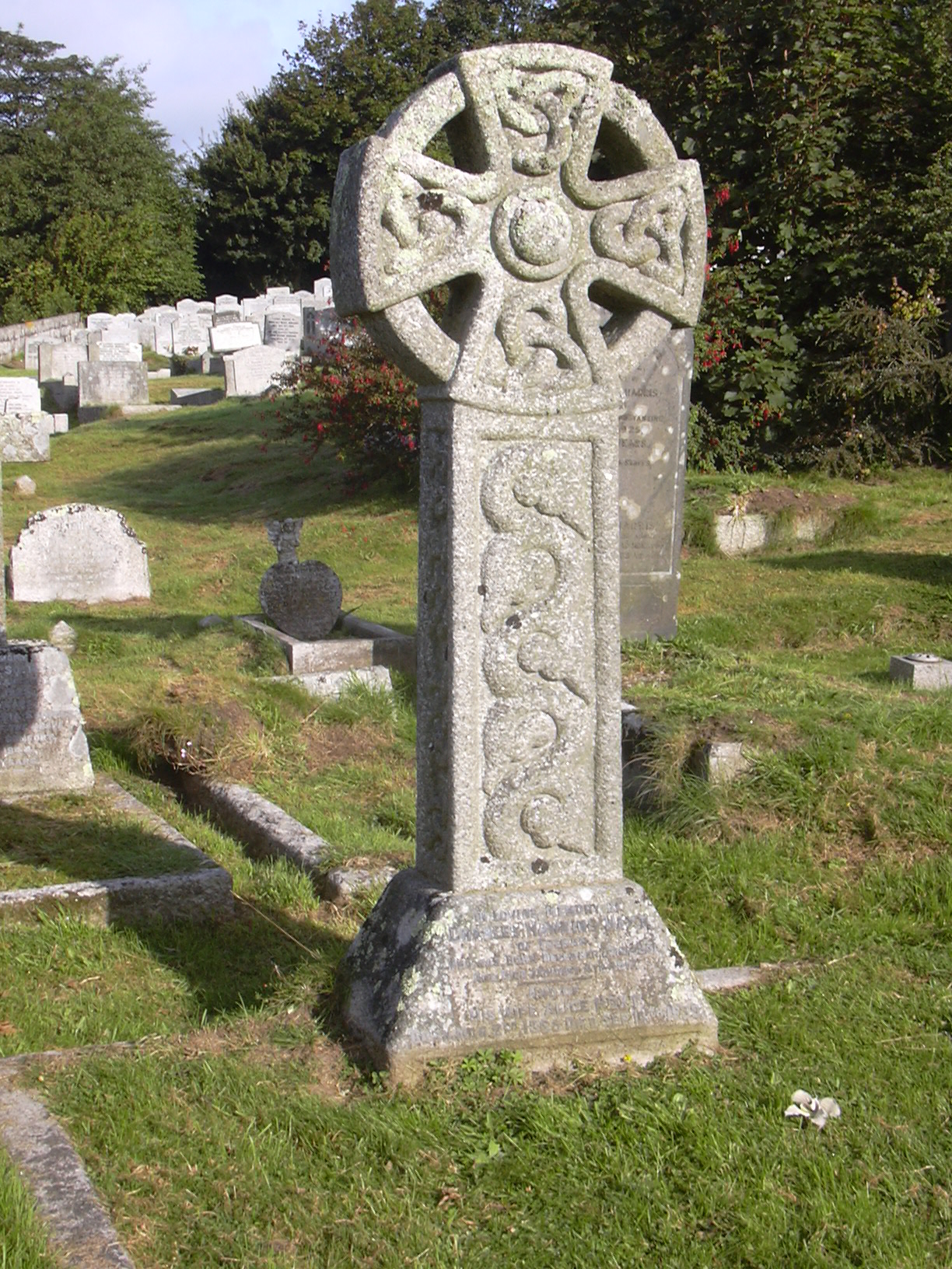 Grave of Charles Hawkins Hext (died 1917) and Alice, his wife (died 1939), in the churchyard of Saint Constantine, Cornwall.